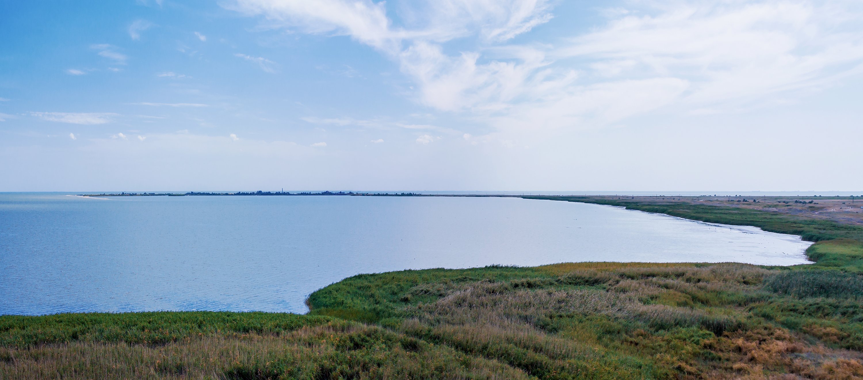 Beglitsa spit: Beglytskaya spit is located to the south of the village. Beglitsa and occupies the same sand spit, Neklinovsky district, Rostov region This image is related to the protected area of Russia number 6110086